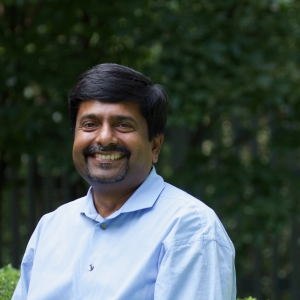 Head shot of Rev. Abhi Janamanchi in the church courtyard